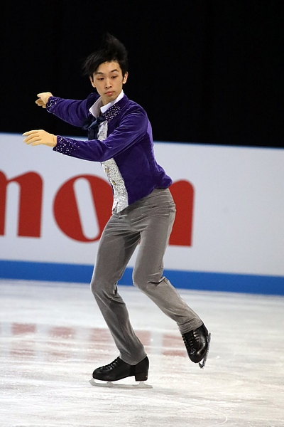 Photos – Junior World Championships 2018 – Men (Mitsuki SUMOTO JPN – 9th Place)